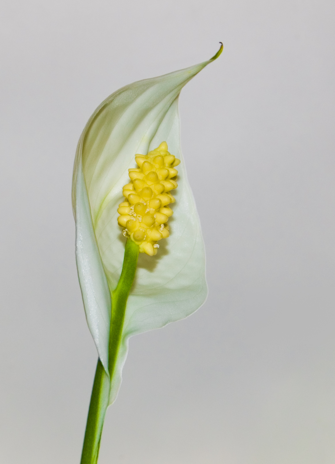 Spathiphyllum wallisii